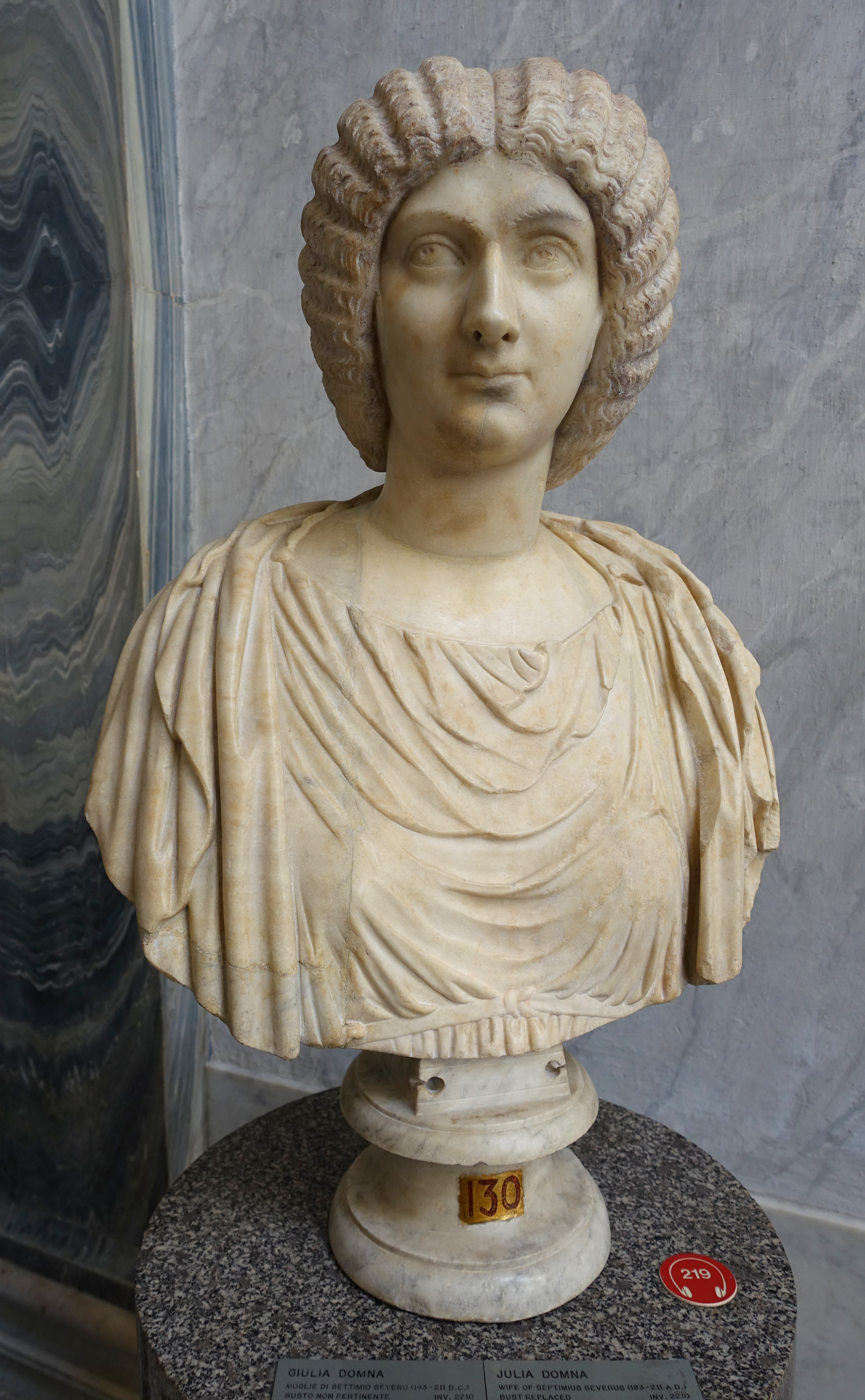 Exhibit in the Museo Chiaramonti - Vatican Museums.